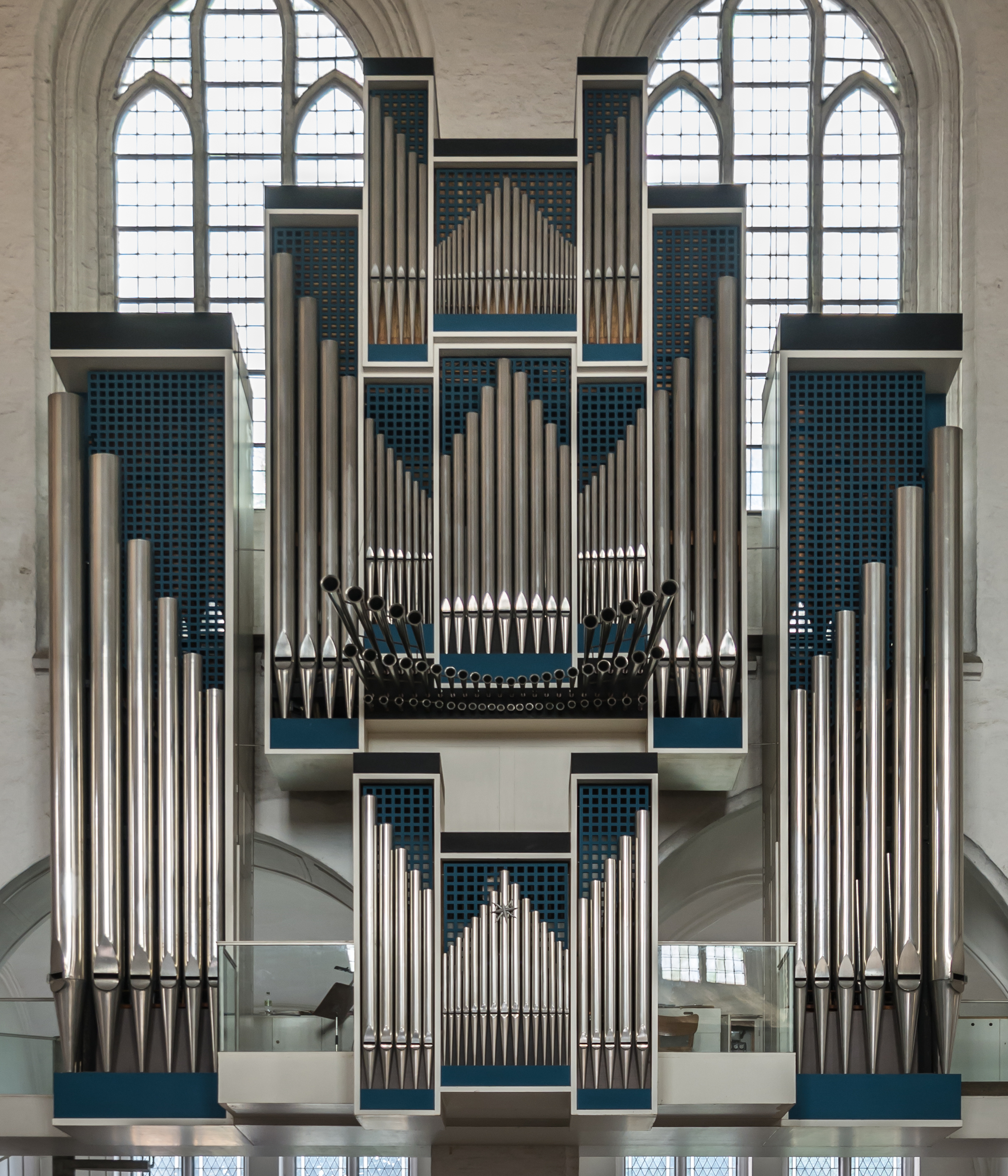 Marcussen organ of Lübeck Cathedral. This is a photograph of an architectural monument.